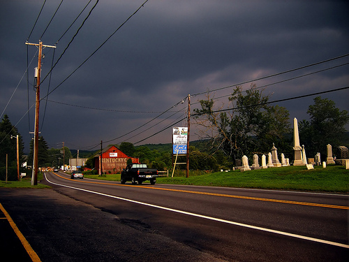 Retreating thunderstorm, Route 209 North, Monroe County, near Brodheadsville.